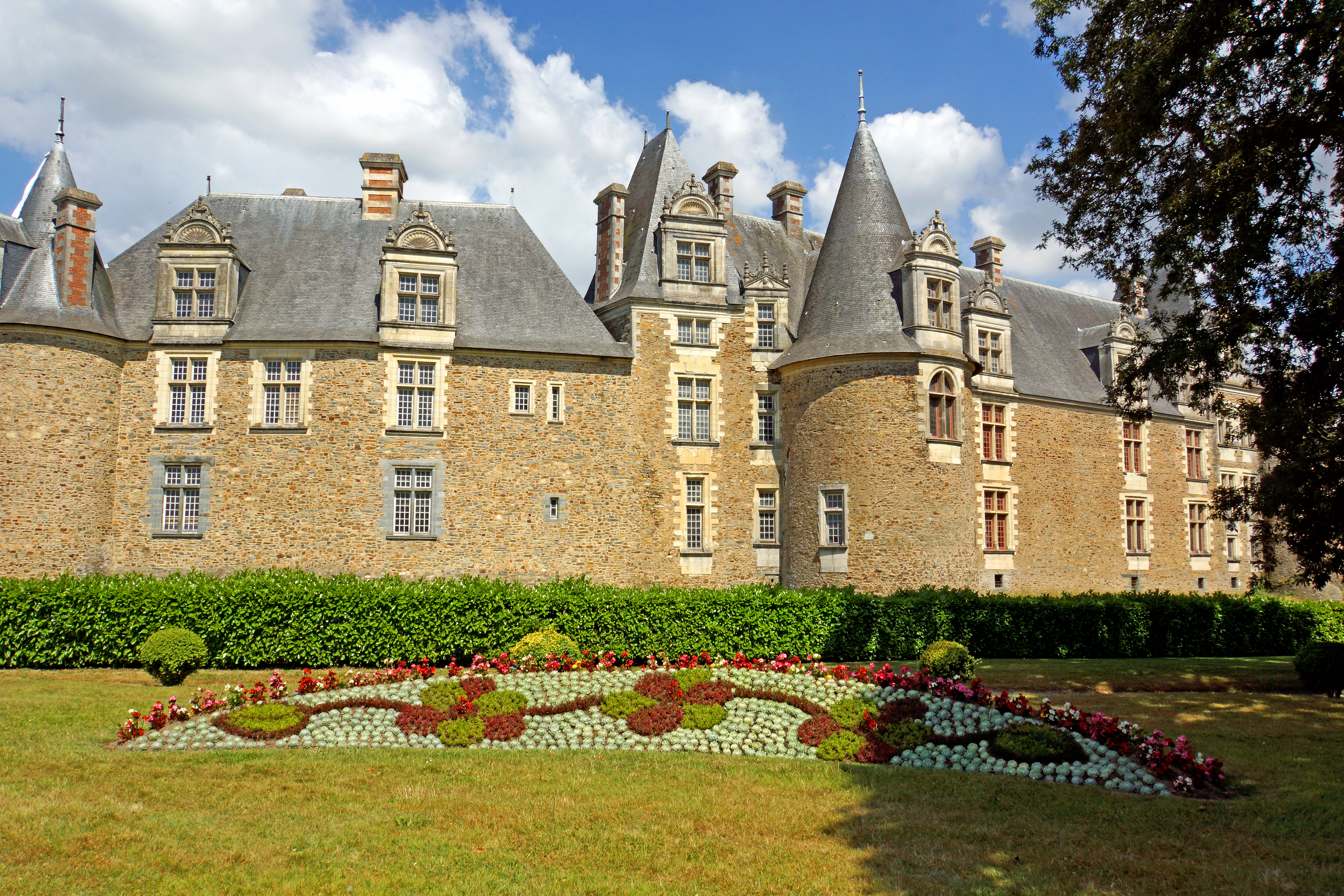 PLEASE, NO invitations or self promotions, THEY WILL BE DELETED. My photos are FREE to use, just give me credit and it would be nice if you let me know, thanks. Time to get back to the bus to continue on the journey. The Château de Châteaubriant is French medieval and Renaissance architecture. It combines an upper and a lower bailey encircled by walls and towers mostly dating from the 13th century. In the upper bailey are located the 12th century chapel and the 14th century keep and two halls.